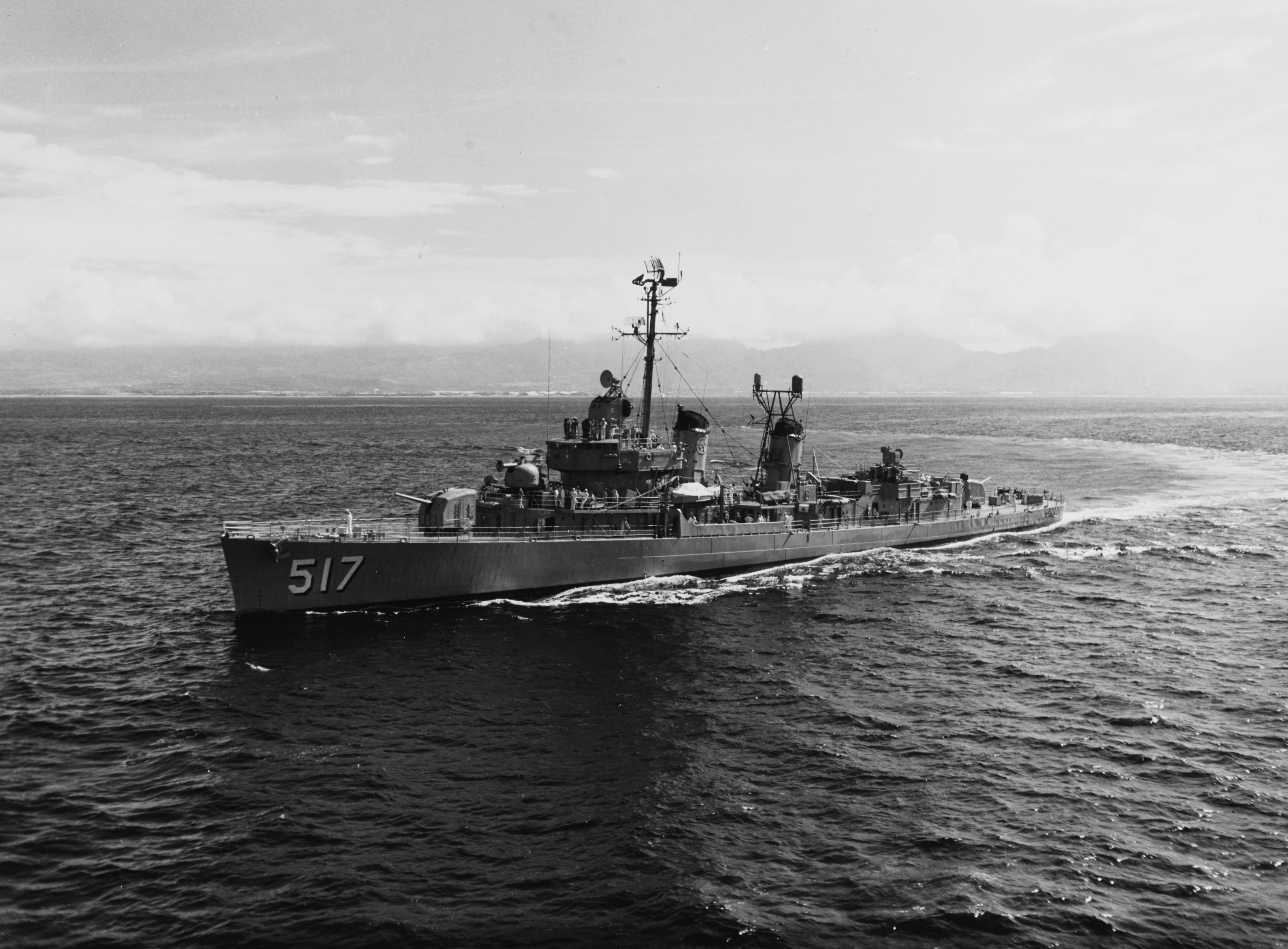 The U.S. Navy destroyer USS Walker (DD-517) manuevers off the coast of Oahu, Hawaii (USA), on 29 May 1963.